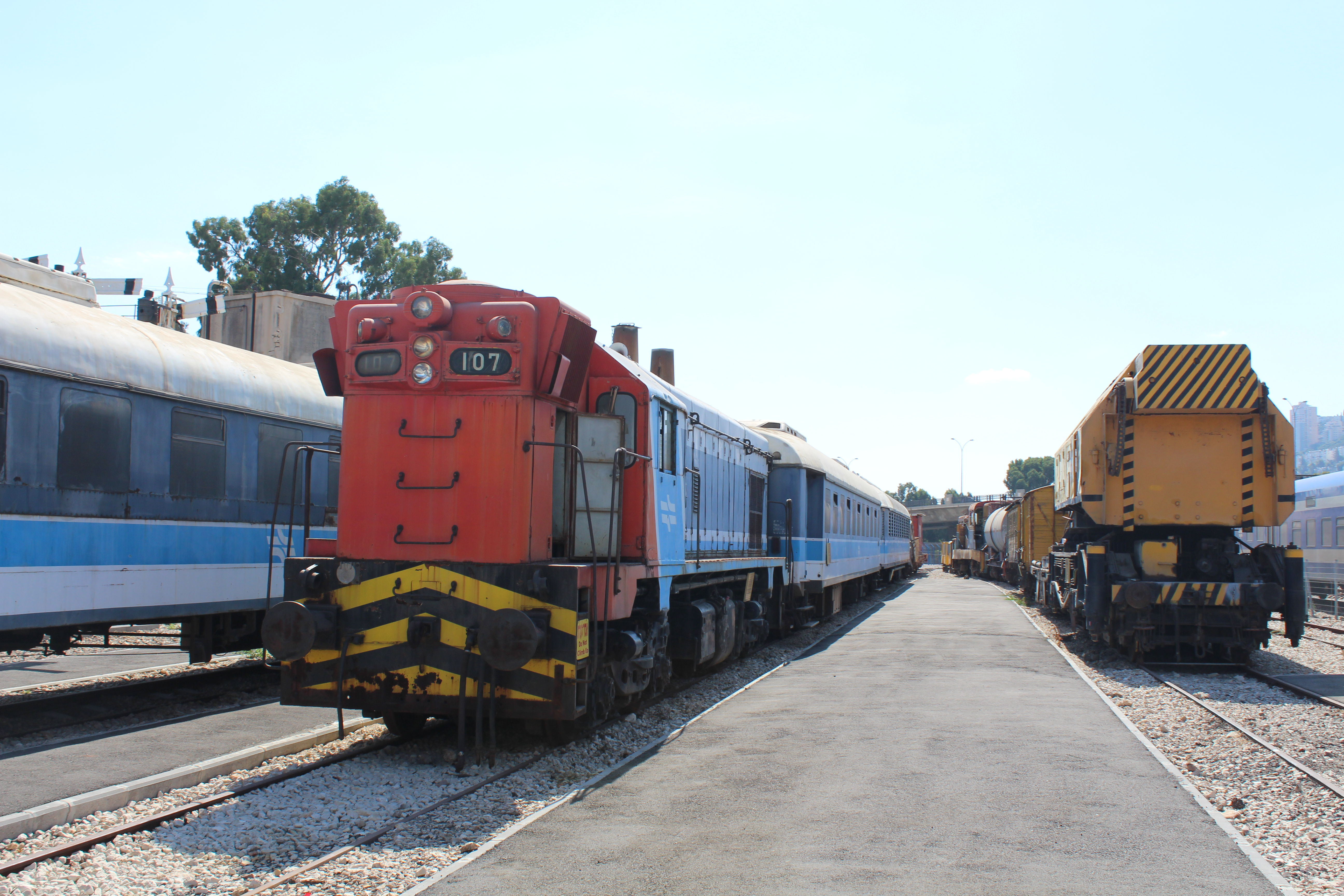 Israel Railway Museum, Haifa The site's ID in Wiki Loves Monuments photographic competition is 4-4000-011